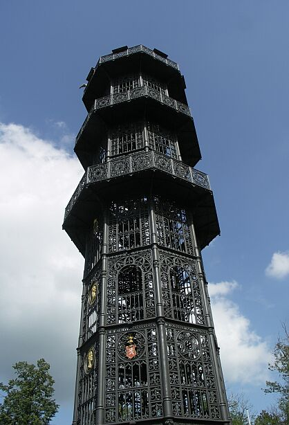 cast-iron tower, Mountain Loebauer Berg, Saxony, Germany